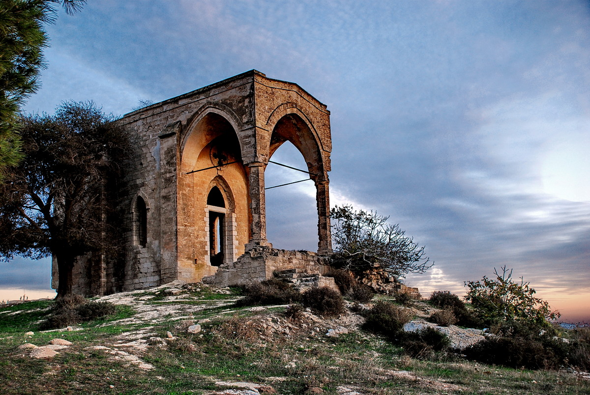 Cities in Israel